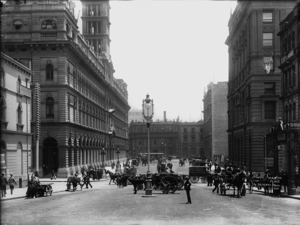 'Sydney City' Pictures from The Powerhouse Museum This files was posted to Flickr by The Powerhouse Museum (See their website for further information). Many thanks to the Powerhouse Museum for helping release this wonderful material. This tag does not indicate the copyright status of the attached work. A normal copyright tag is still required. See Commons:Licensing for more information.